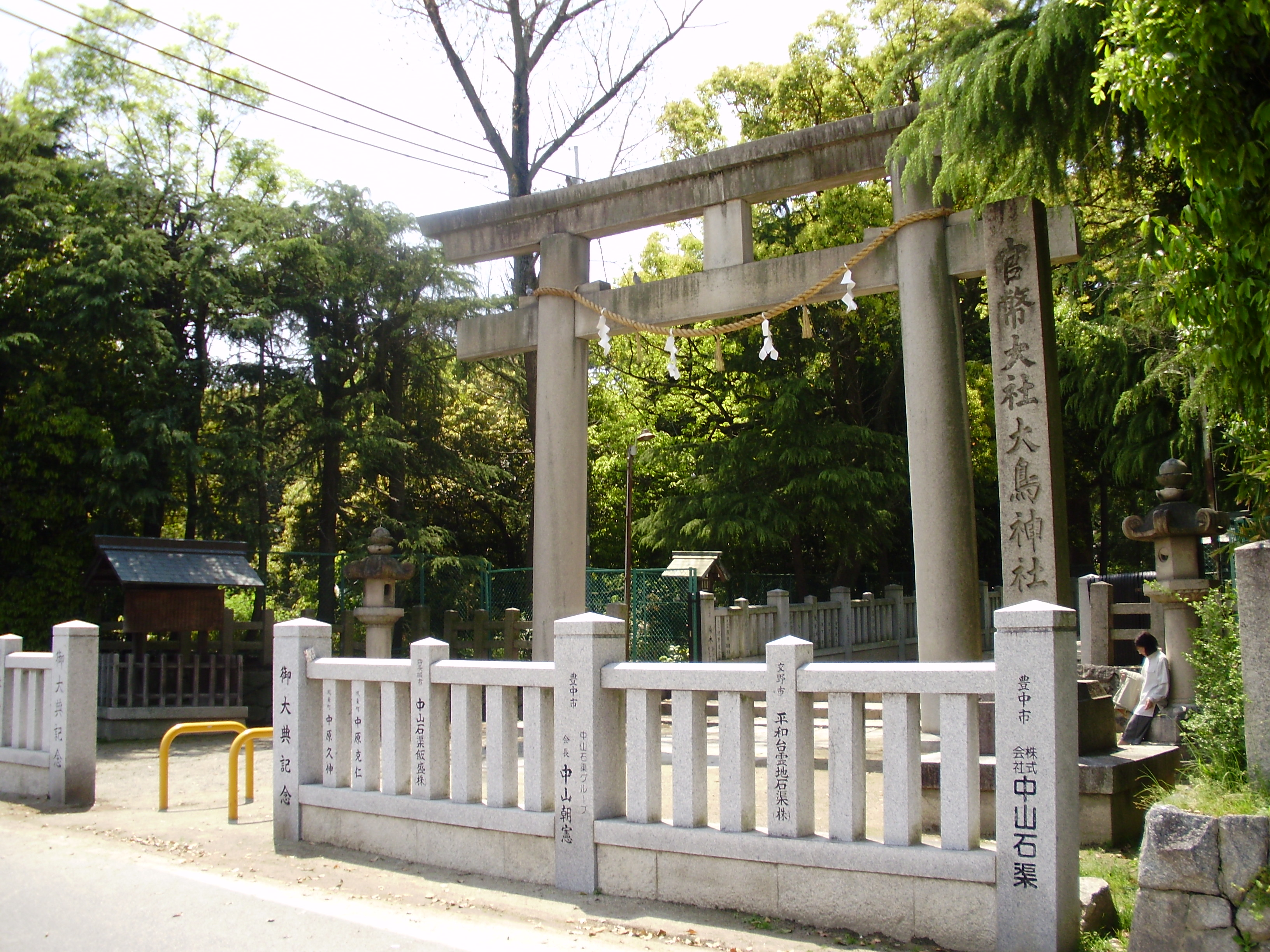 Entrance to Otori-taisha.